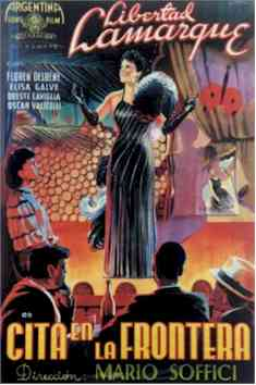 Poster for the film Cita en la frontera (1940) directed by Mario Soffici